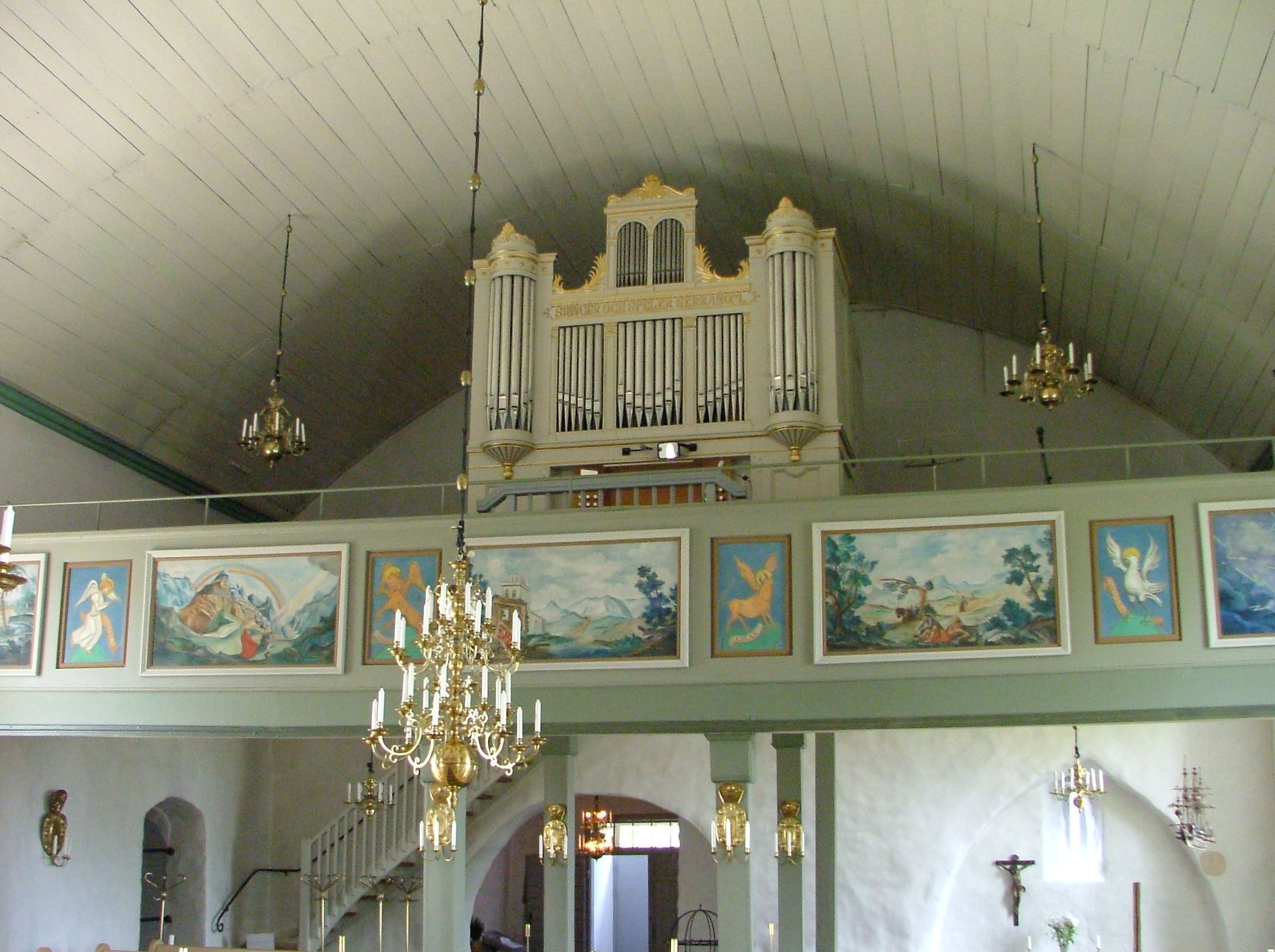 Räpplinge Church. Organ with Gallery decorated by Erik Jerken.